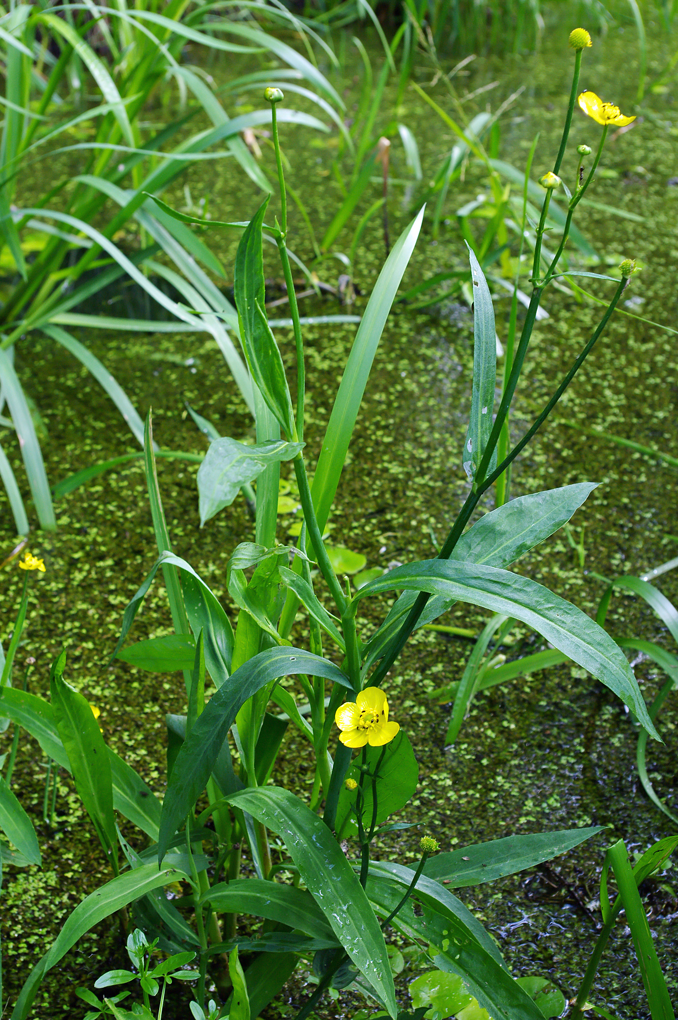 Habitus of flowering Ranunculus lingua in a natural habitat.